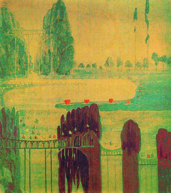 Painting Scherzo (part three) in four-painting cycle Saulės sonata (Sonata of Sun).